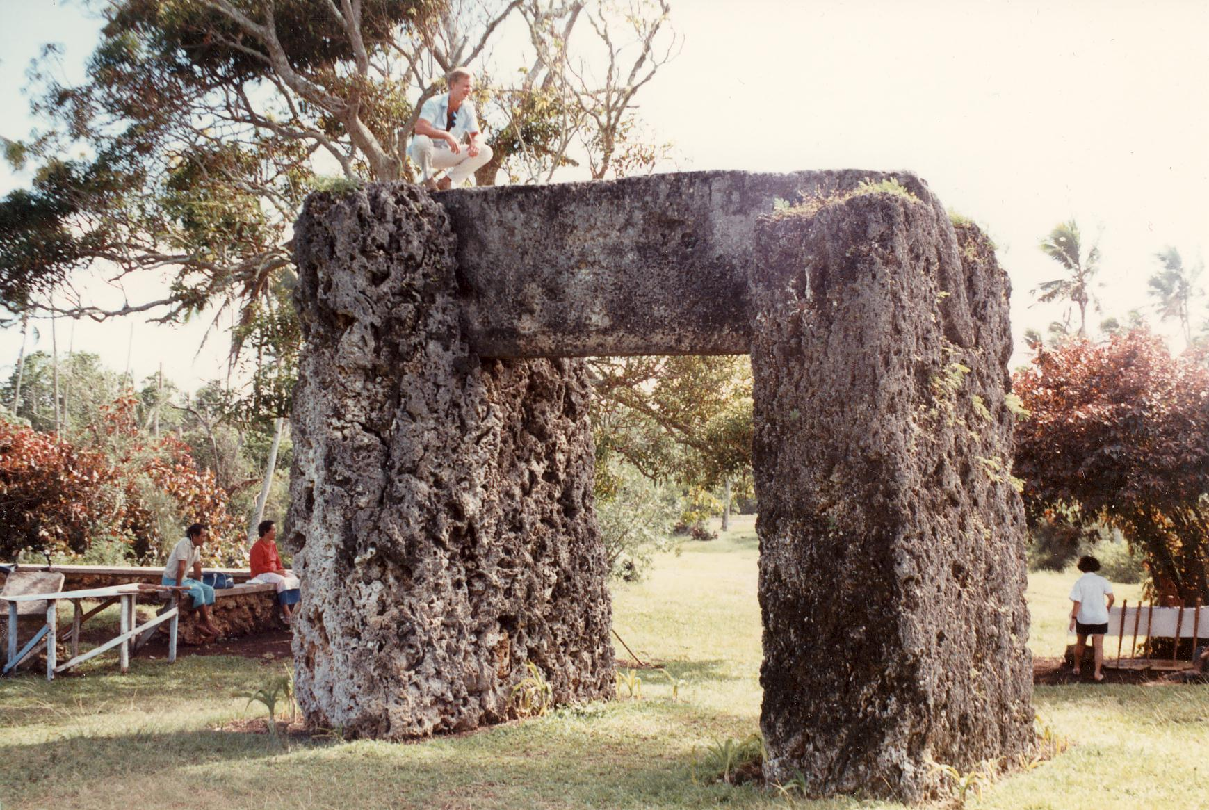 Haamonga A Maui, Tongatapu, Tonga, picture taken by uploader on visit 1990